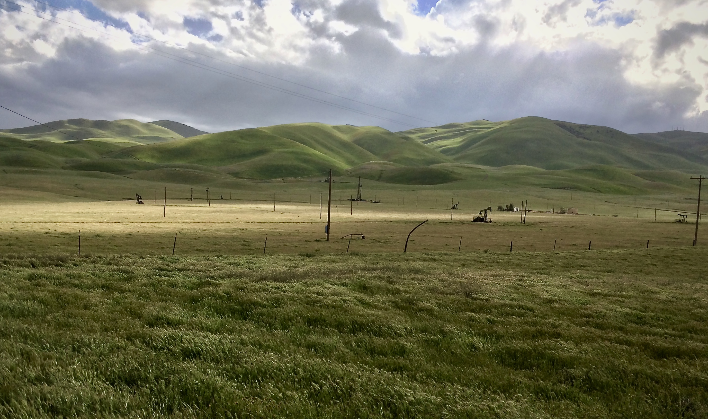 A small oilfiield being developed just south of CA-58, at the north end of the Temblor foothills. Located about 3 miles WSW of Reward, it is currently (2019) being developed -- note active drill rig at right center.